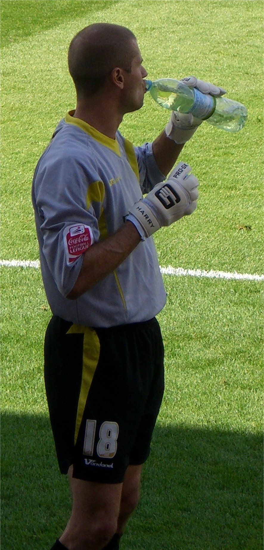 Lee Harrison